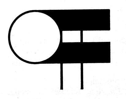 Symbol of the Union of the Moovie and TV employees in the GDR